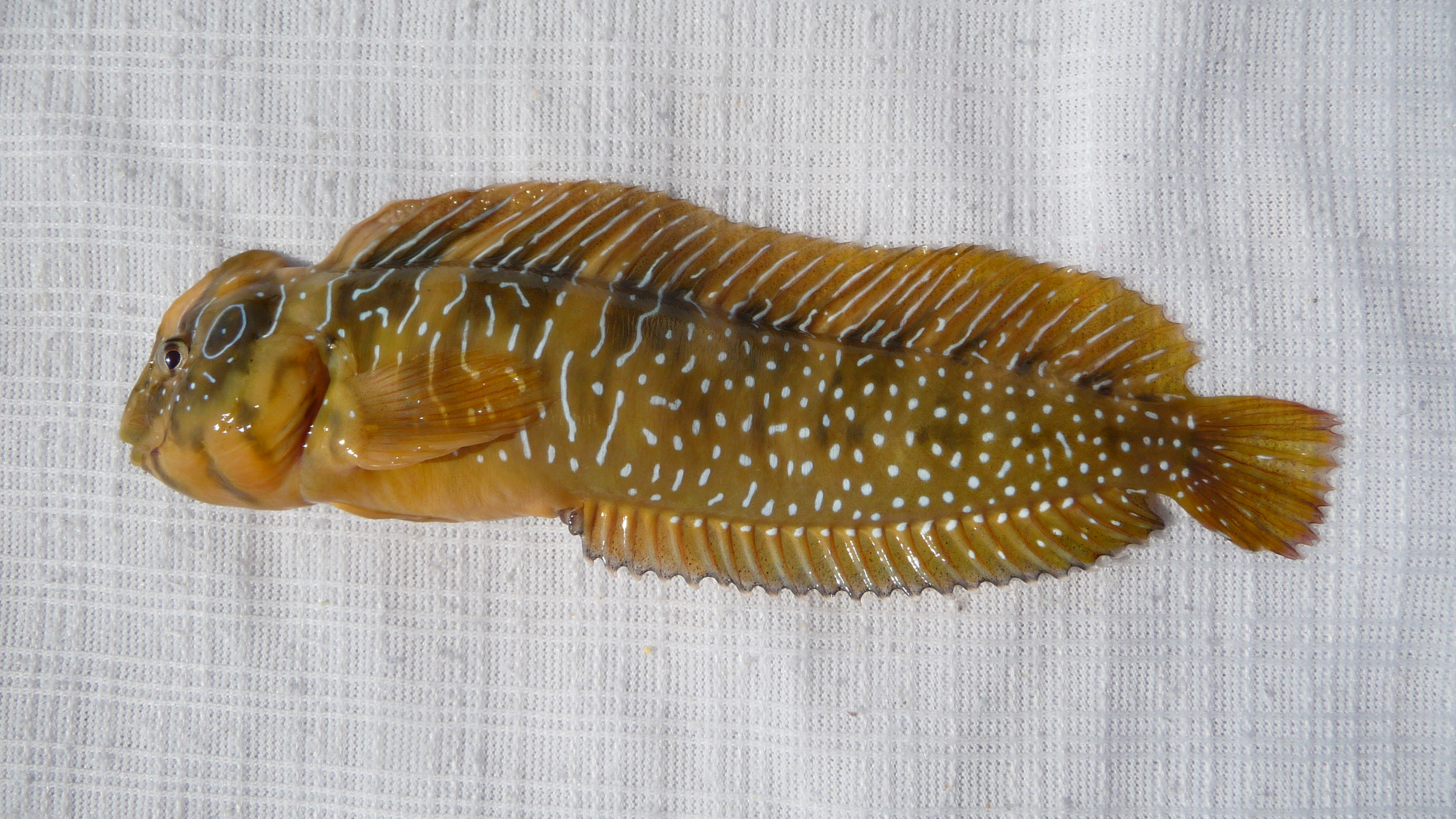 Salaria pavo (Risso, 1810). Peacock blenny male. This funny predatory fish was caught in the Black sea. Wet matter was used as a background to prevent damage to its skin. After very short photosession the fish was released back to the sea. This fish is able to change colour, like a chameleon. Geogoding of the location at which it was caught and photographed are the same.